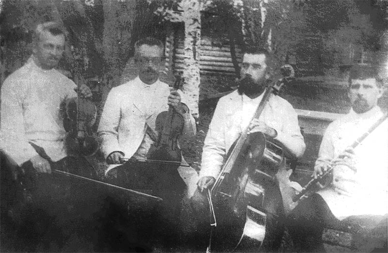 Doctor Aleksabdr Bodrov, a member of the second Russian State Duma, with local amateur orchestra (second from the right)